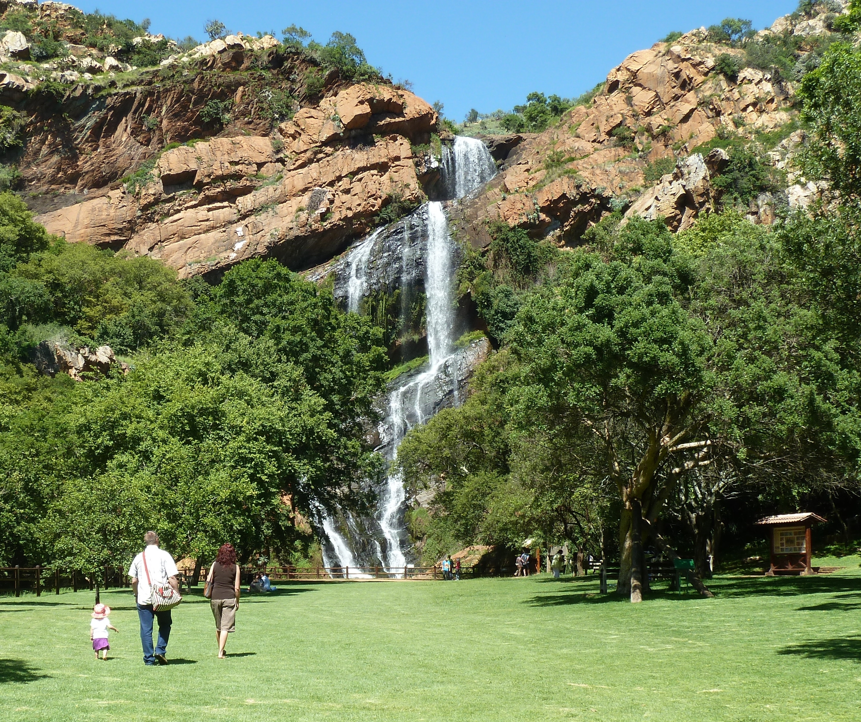 Witpoortjie waterfall in Muldersdrif se Loop, in the Walter Sisulu National Botanical Garden